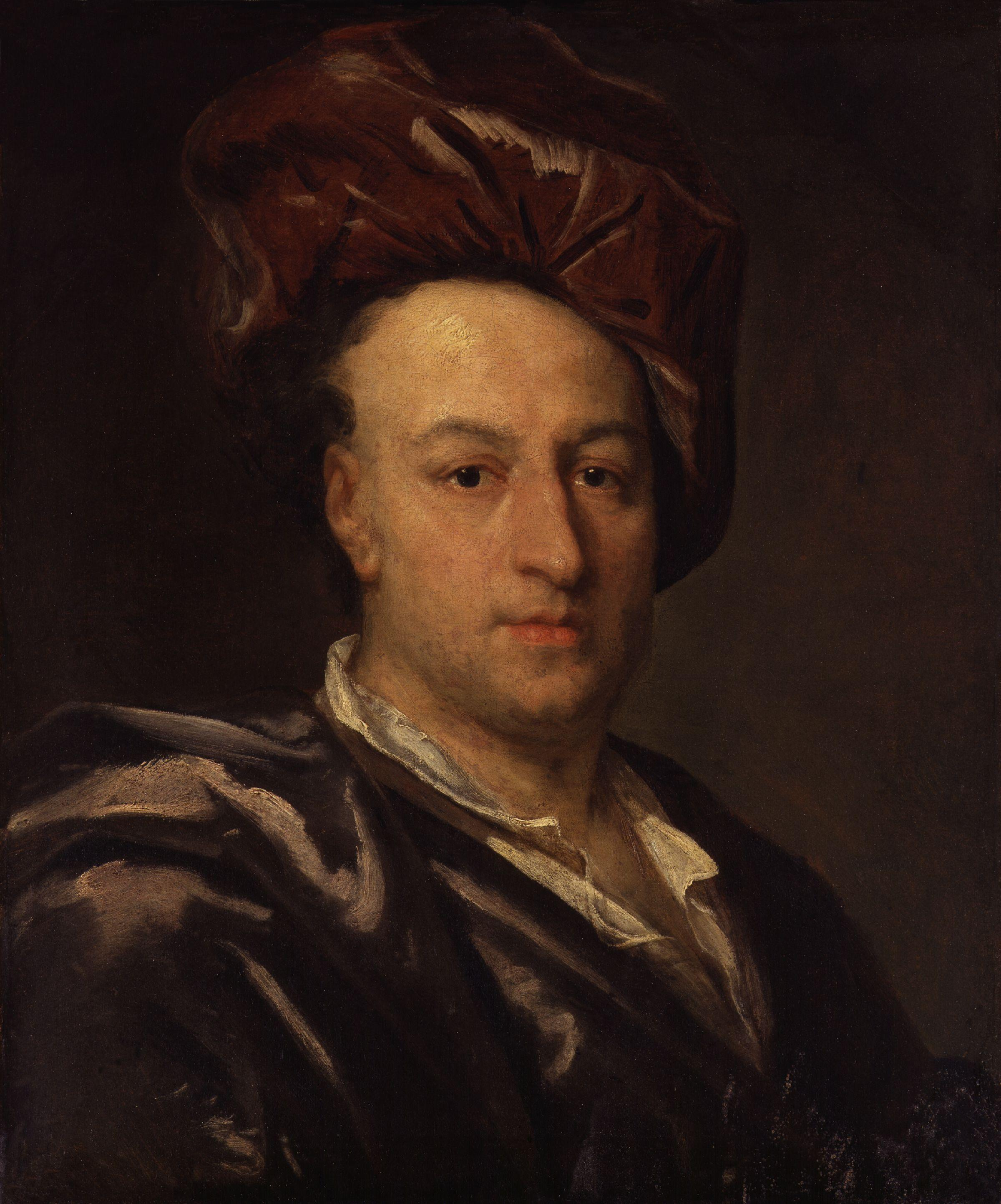 Henry St John, 1st Viscount Bolingbroke (1678-1751), by Jonathan Richardson (died 1745). All images in this batch have been confirmed as author died before 1939 according to the official death date listed by the NPG.